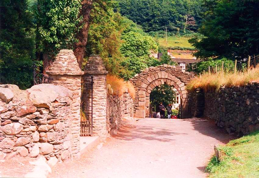 Glendalough, Lower Valley